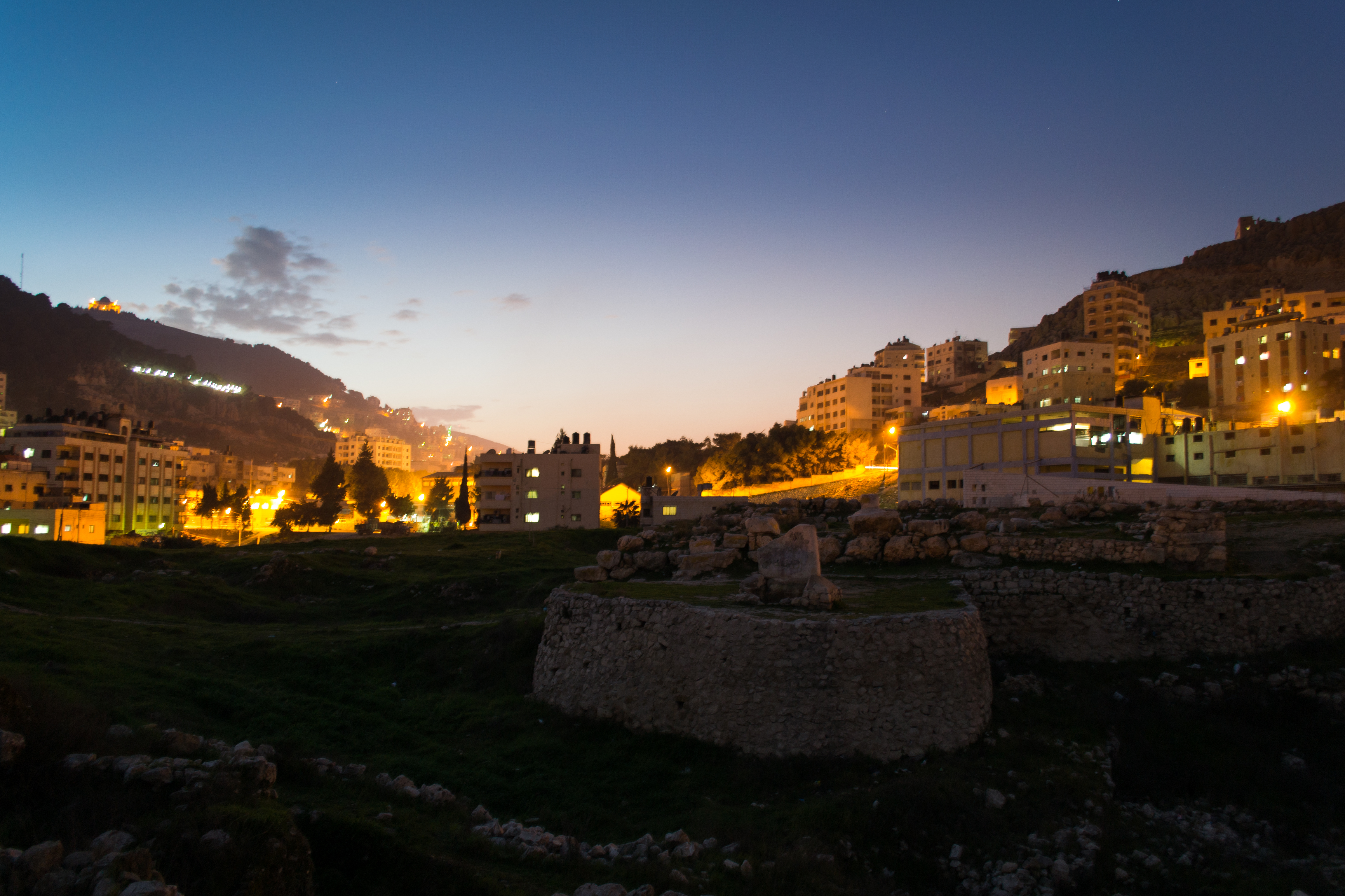 Shechem (Ancient city of Nablus), was a Canaanite city It's also called Balata' Hill